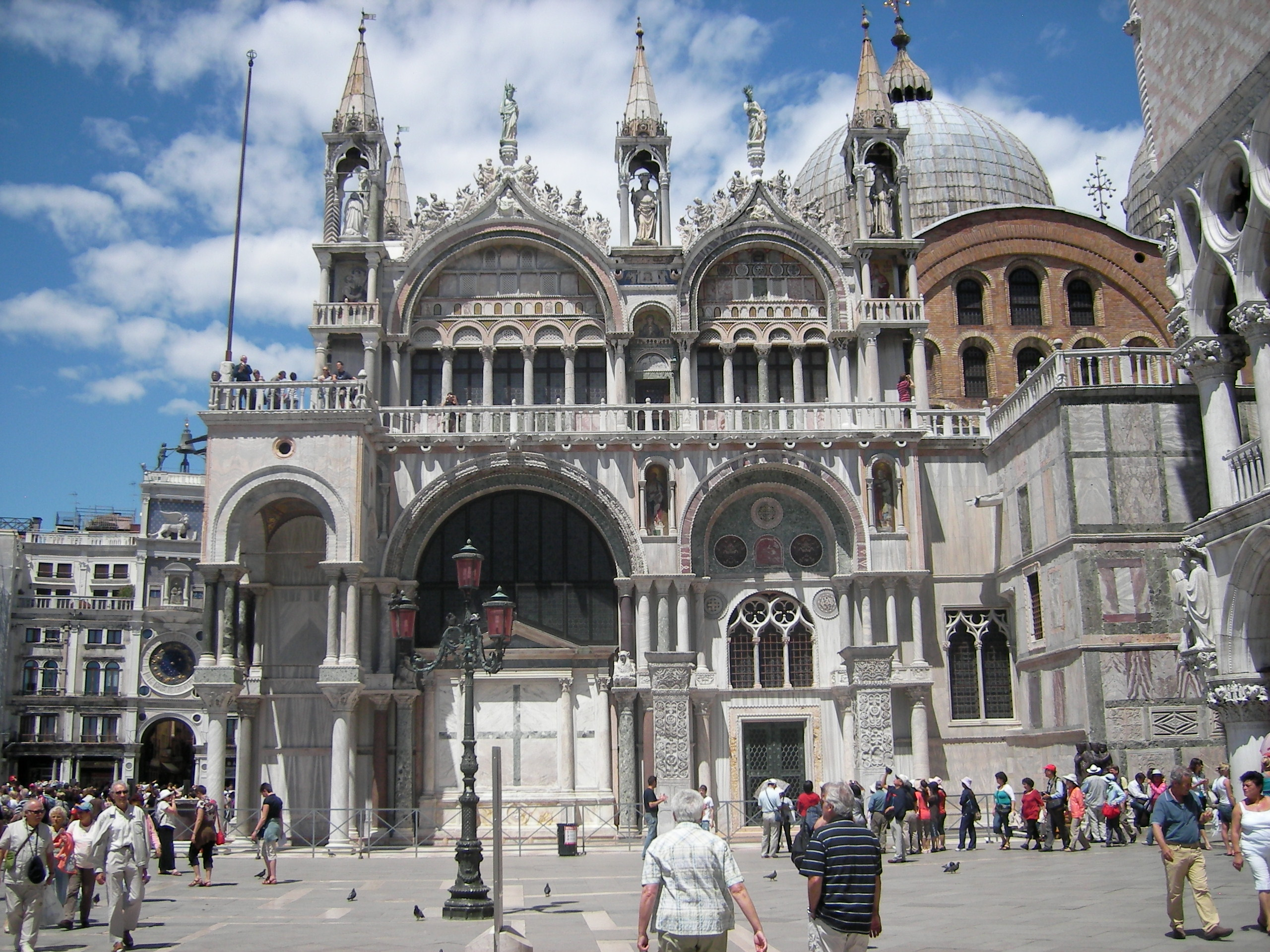 Venice